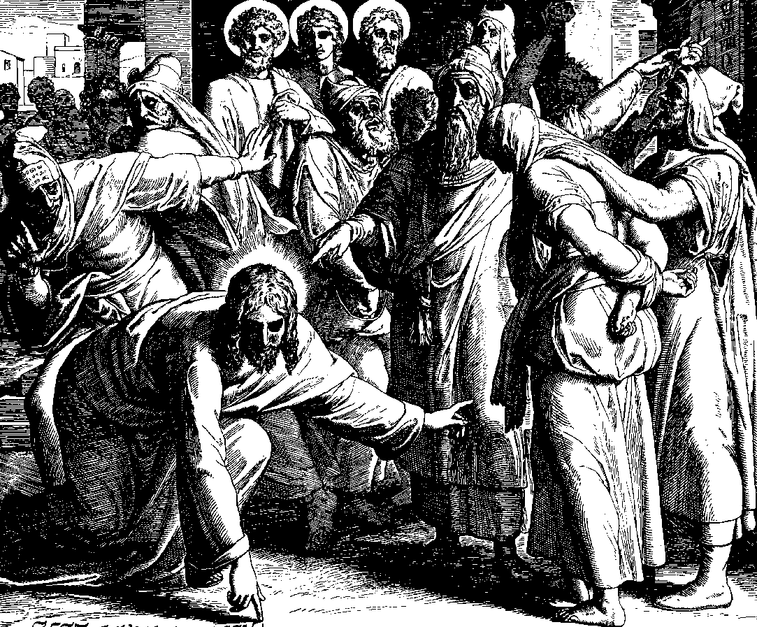 Woodcut for "Die Bibel in Bildern", 1860.